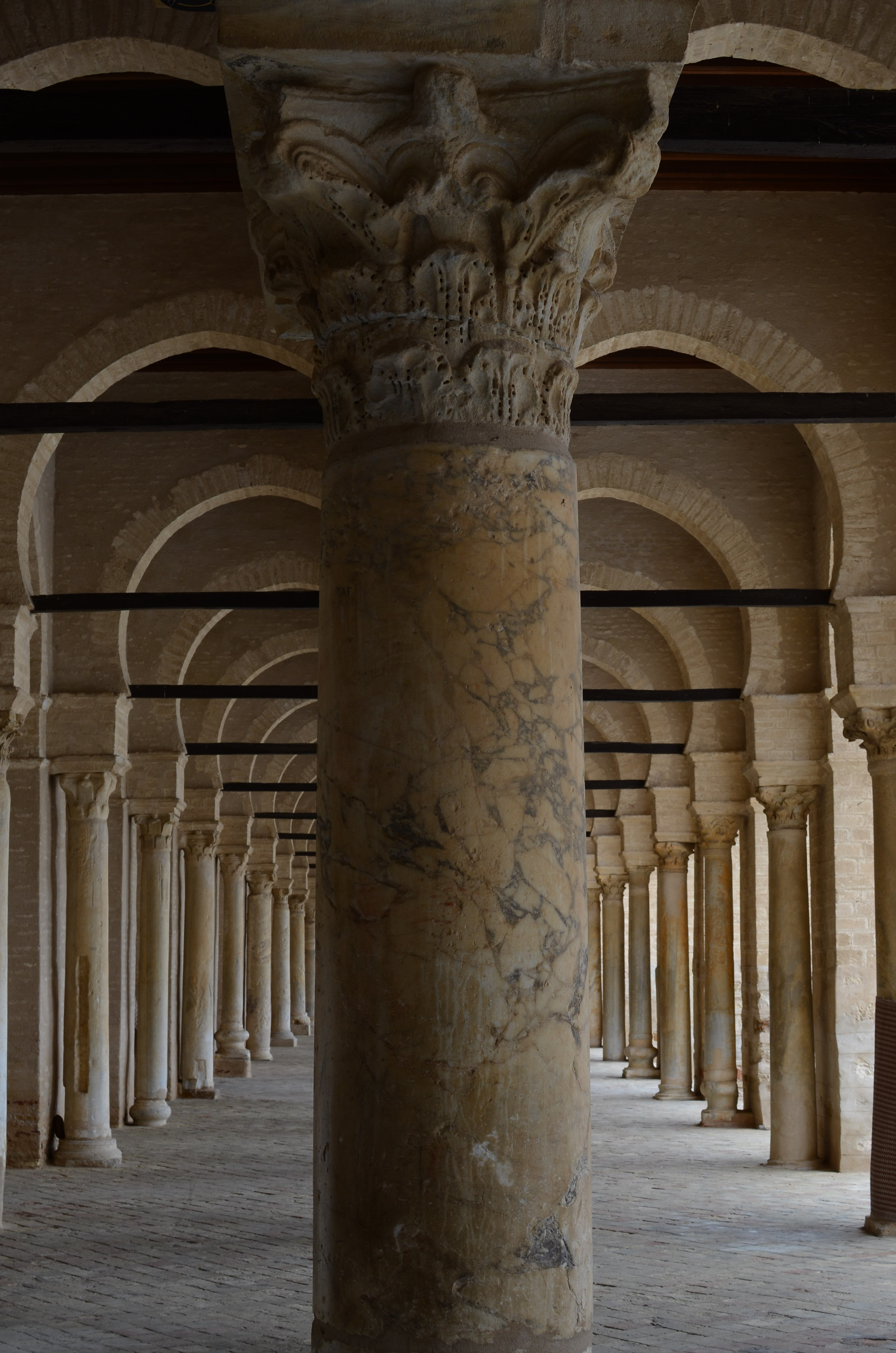 Interior view of the portico located on the western side of the courtyard of the Great Mosque of Kairouan, in Tunisia.